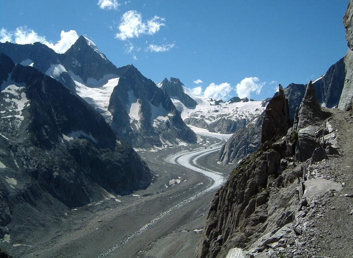 The Oberaletsch Glacier in the Bernese Alps (Valais), from the trail to the Oberaletsch hut. The summit on the left is the Nesthorn.